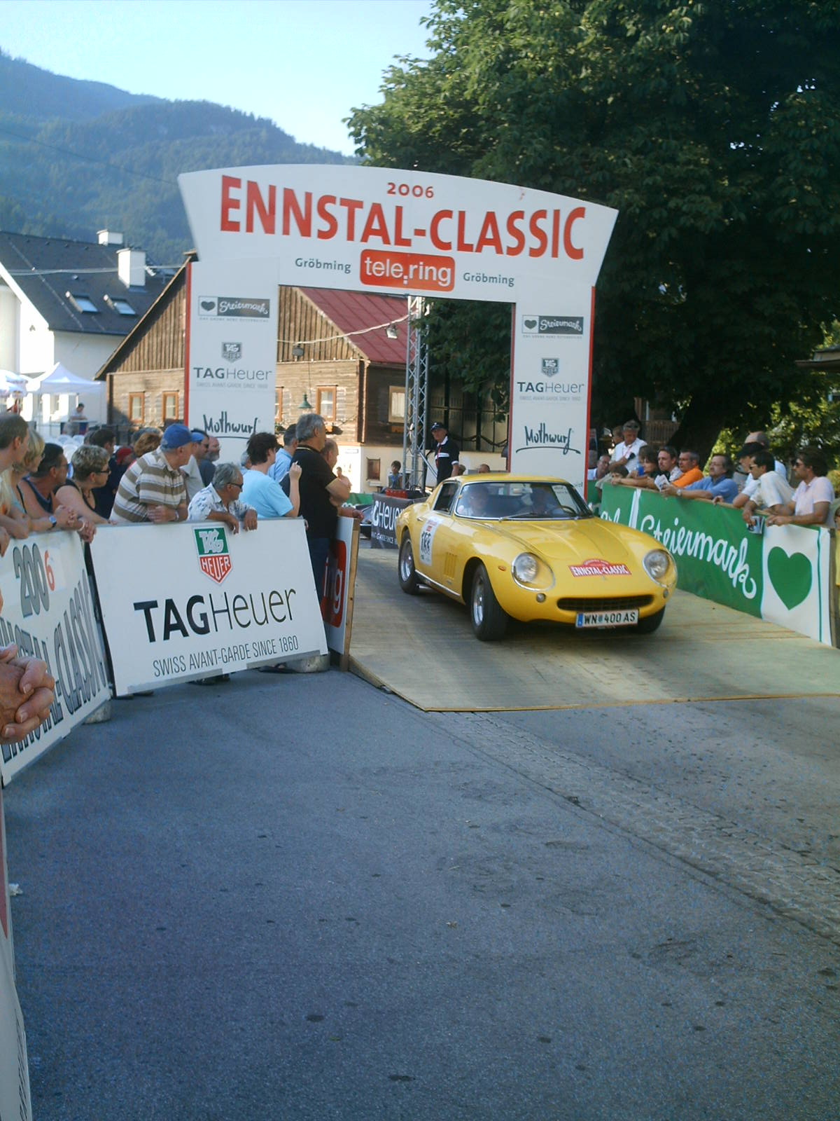 Ennstalclassic in Gröbming